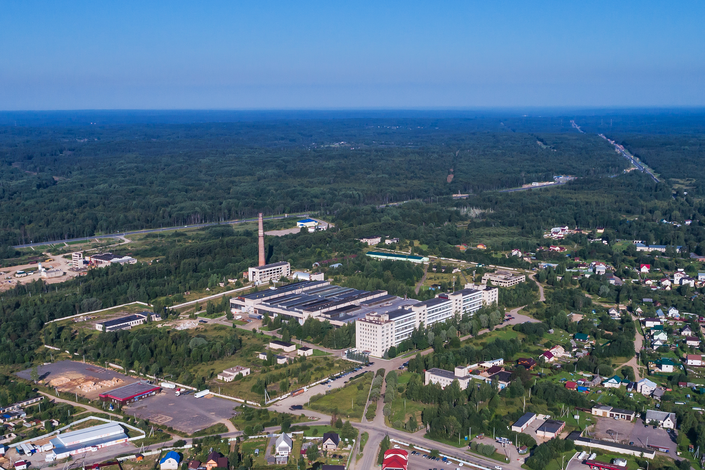 Aerial photo of Valdai, Novgorod Oblast, Russia